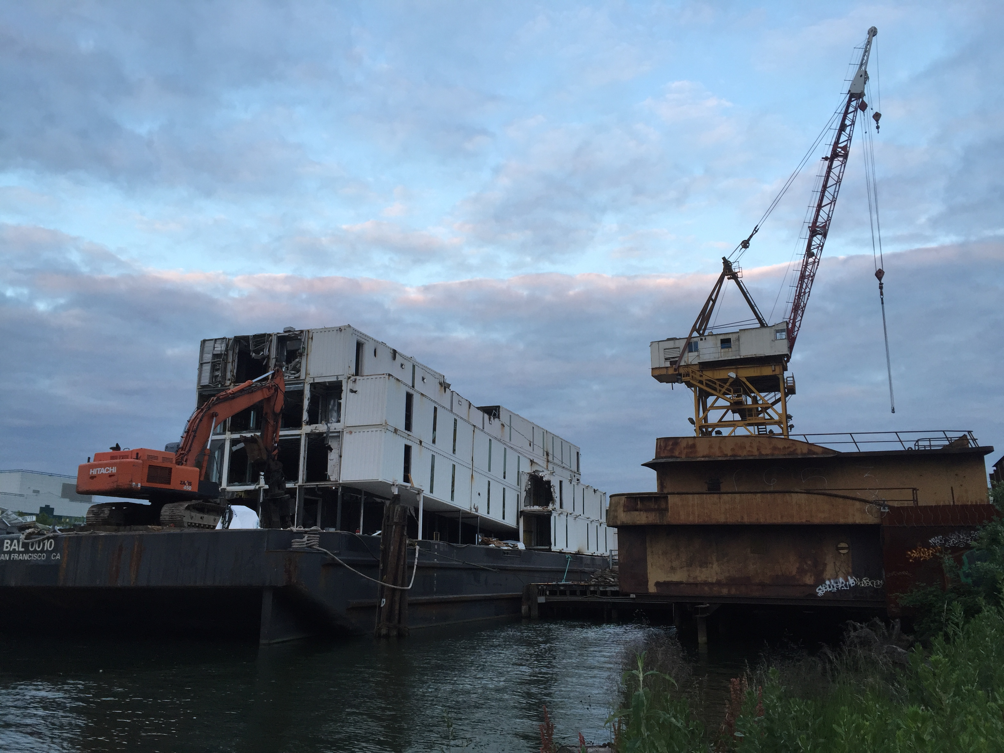 BAL0010 being demolished in South Park, Seattle May 24 2016